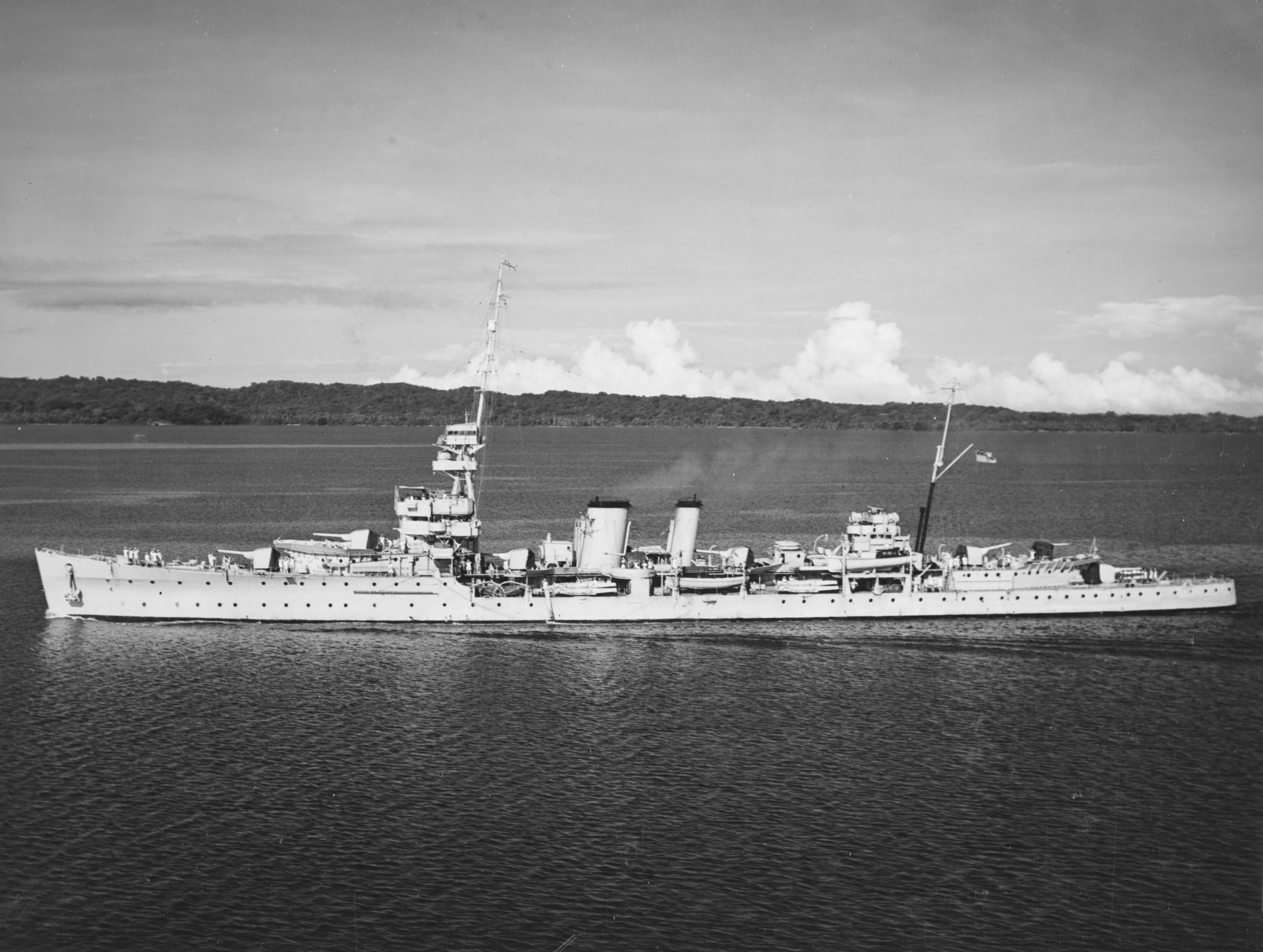 The Royal Navy light cruiser HMS Despatch (D30) underway off the Panama canal zone on 31 October 1939.